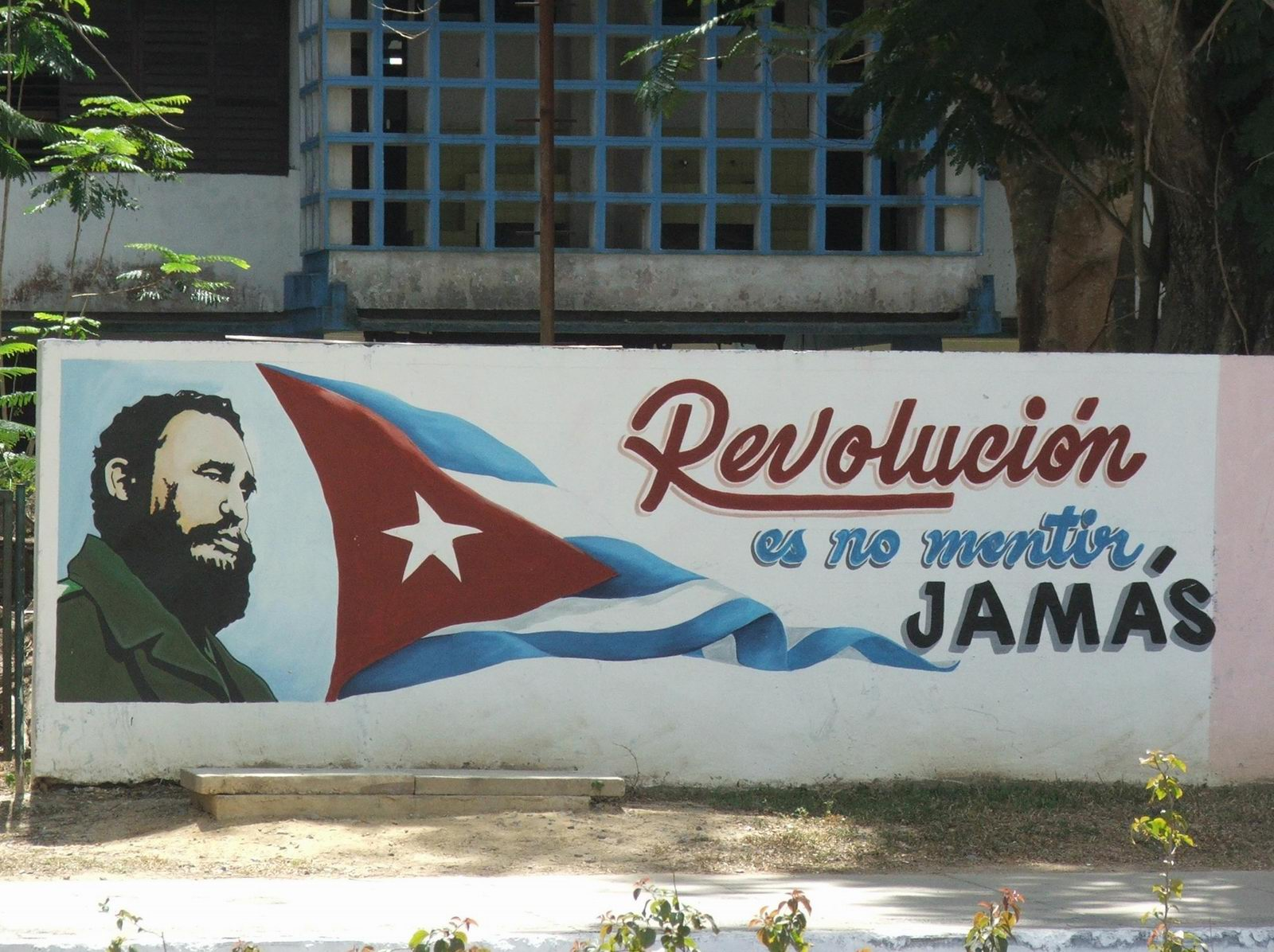 Propaganda poster with Fidel Castro in Pinar del Rio, February 2009,Cuba.